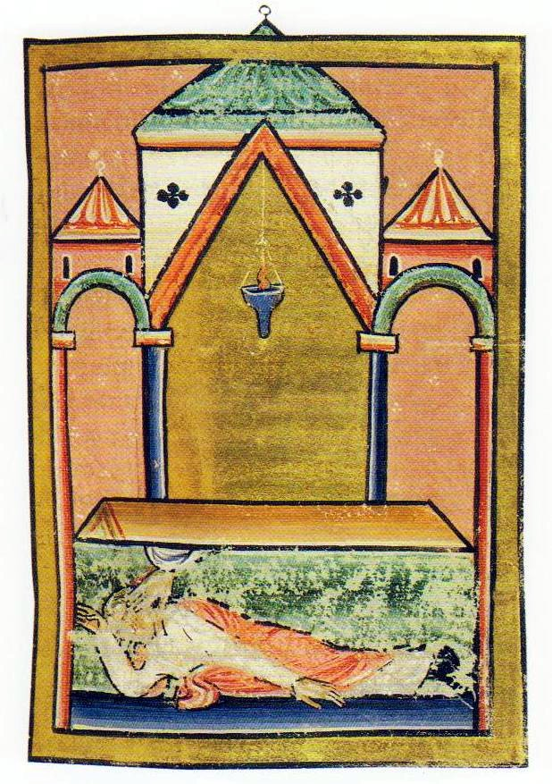 A miniature in the British Library Yates Thomson MS 26, with Saint Cuthbert's hand healing a paralytic